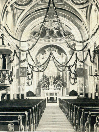 St. Mary's Seminary, interior of the Church of the Assumption, Perryville, MO. Postcard, canceled one cent stamp, two postmarks (Perryville, Missouri, Oct. 25, 1907, 12 M. and Schumer Springs, Missouri, Oct. 26, 1907, P.M.). Black and white postcard, 3 3/8 x 5 3/8 in.; 8.57 x 13.65 cm.